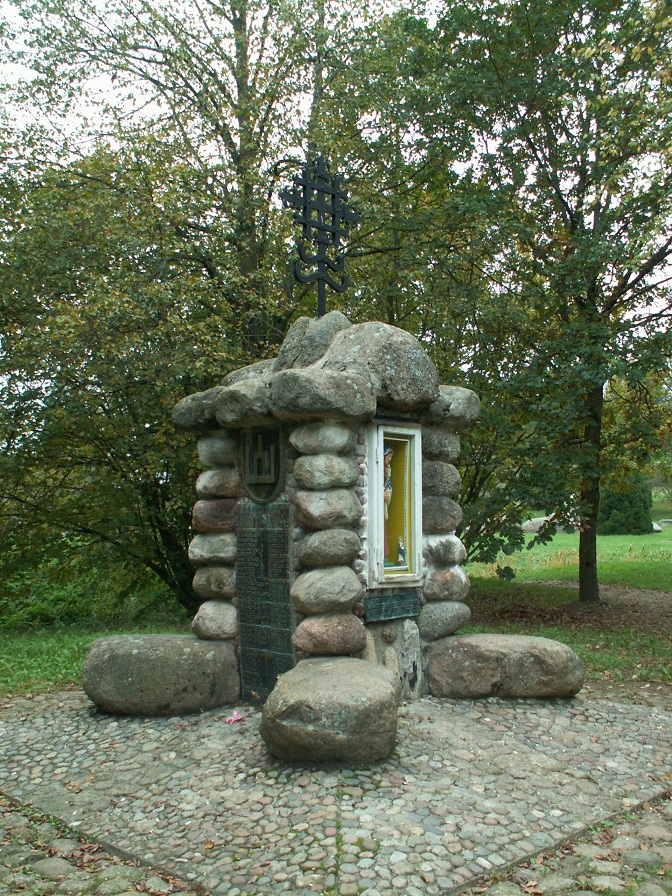 Mosėdis monument, Skuodas district, LithuaniaLietuvių: Mosėdžio paminklas partizanams, Skuodo rajonas, Lietuva